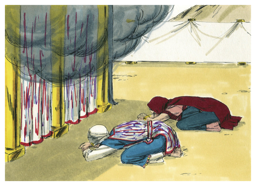 Biblical illustration of Book of Numbers Chapter 12